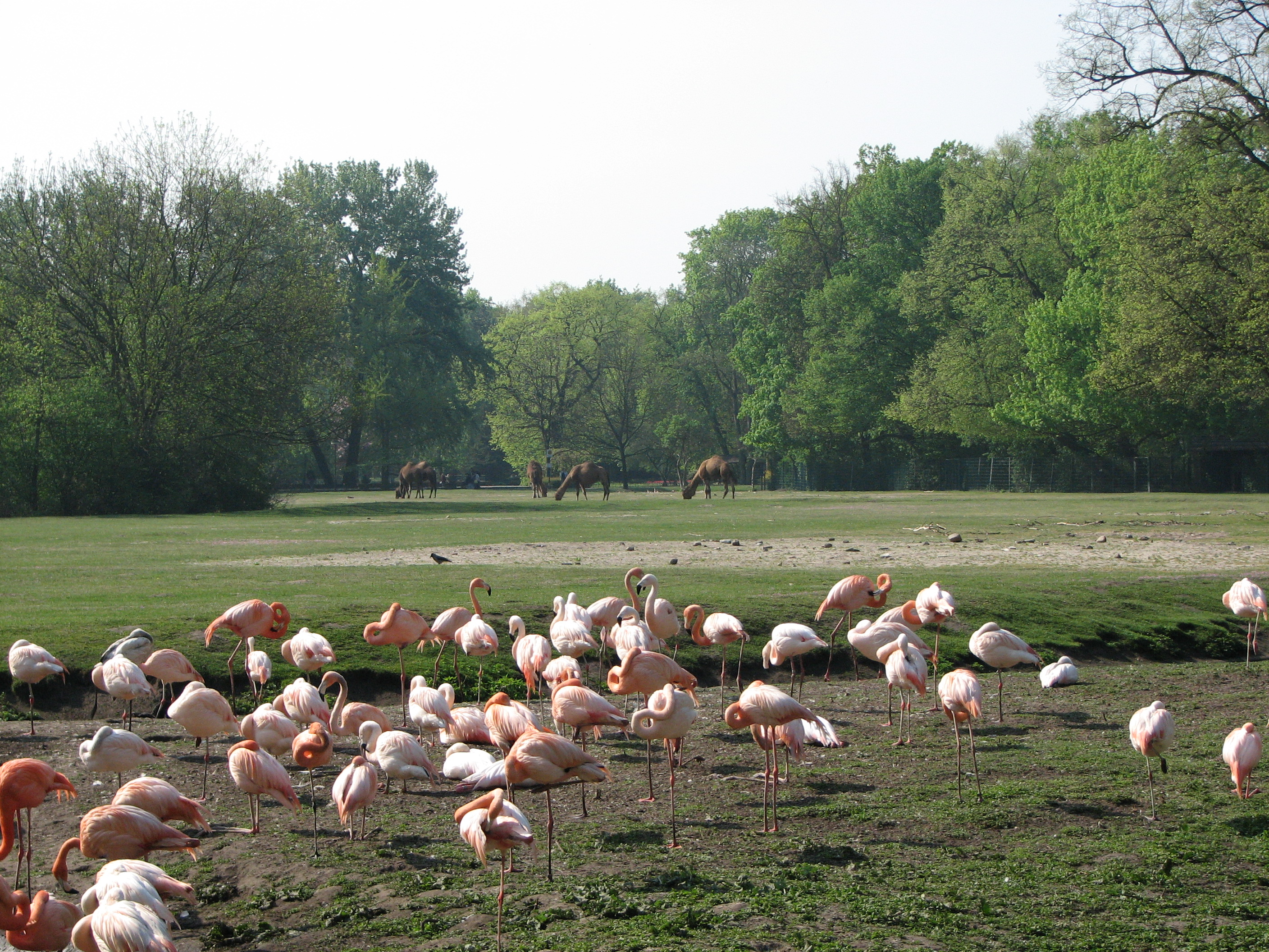 Tierpark Berlin - Flamingos and Dromedary Camels